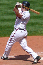 Picture I took of Craig Wilson on 5-10-07 23:05, 13 May 2007 . . Chrisjnelson . . 158×228 (80,705 bytes)